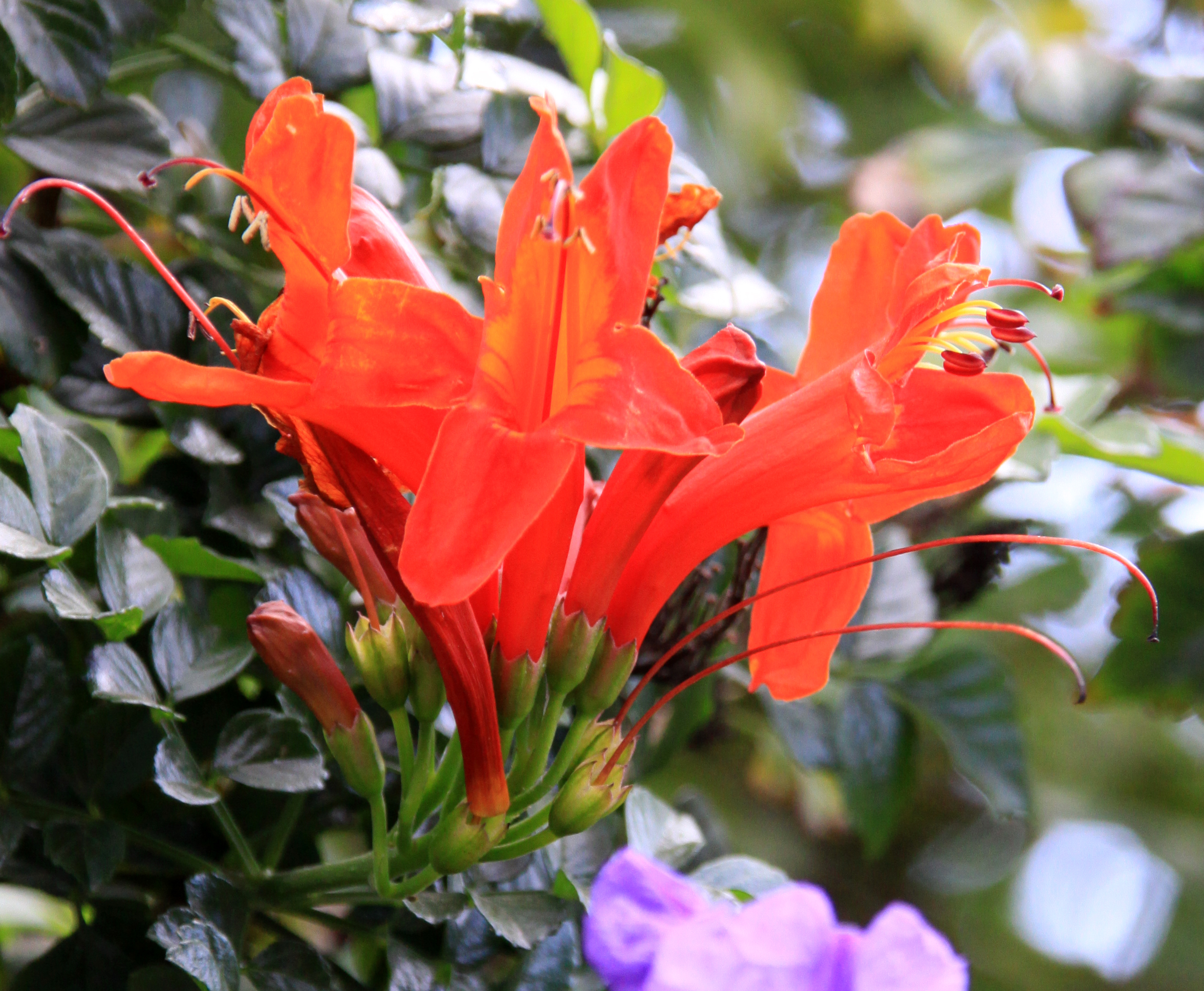 Red Flower